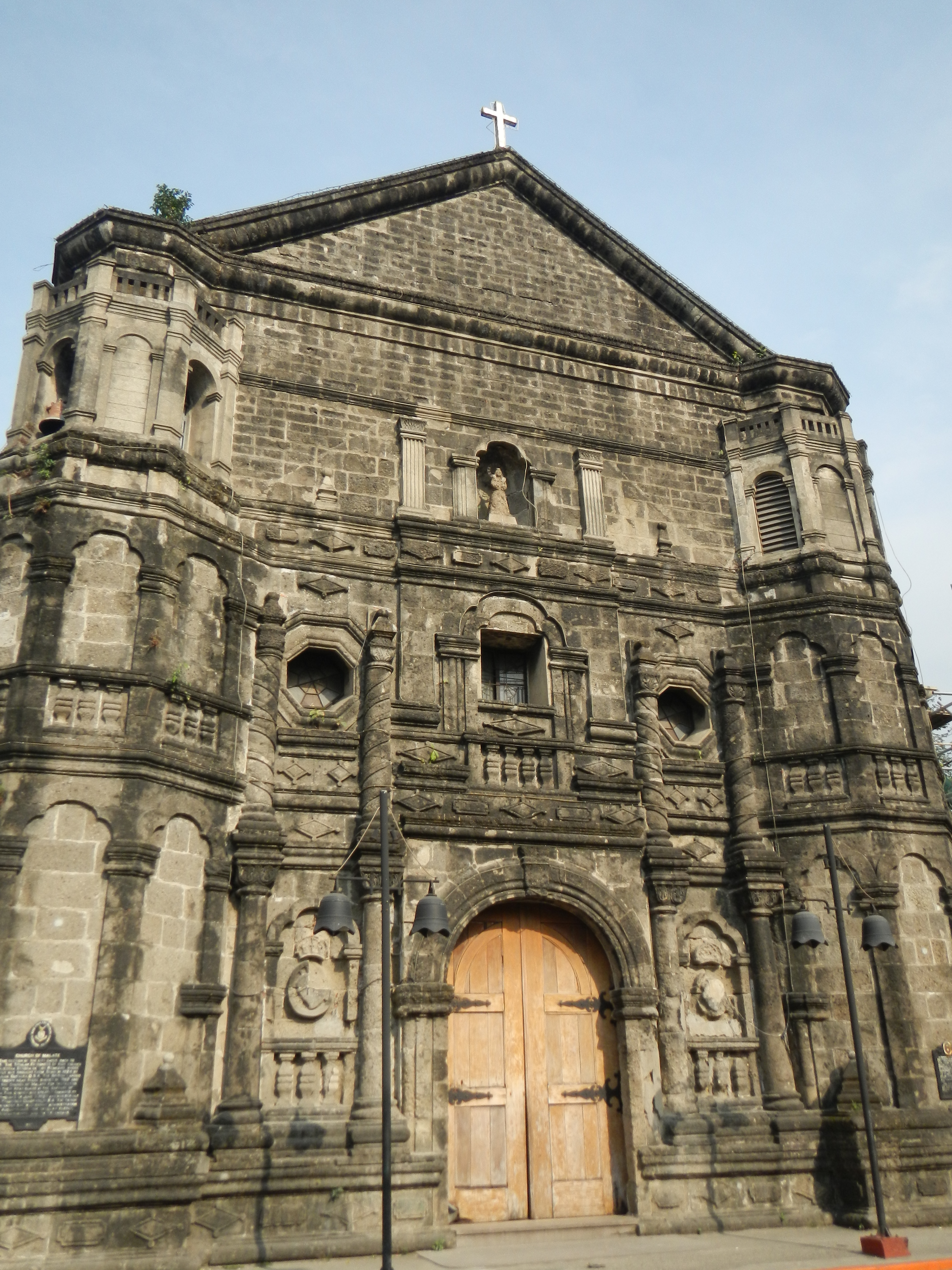 Upload Wizard photos of - Malate, Manila [1] Malate Church and its Remedios Jubilee Mission, and Plaza Rajah Sulayman, Malate, Manila.